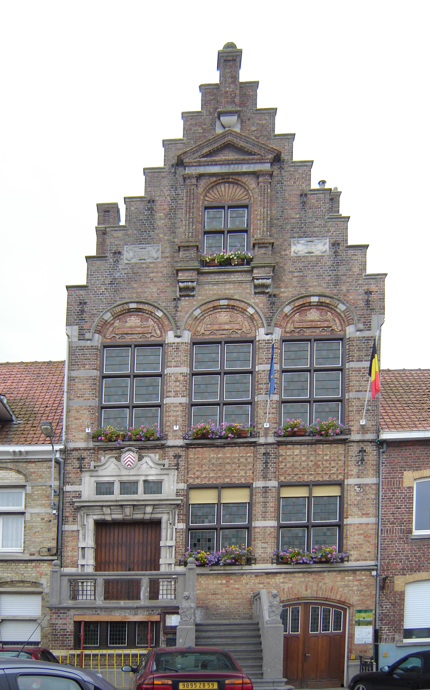 Former town hall of Nieuwkerke, Heuvelland, West Flanders, Belgium.